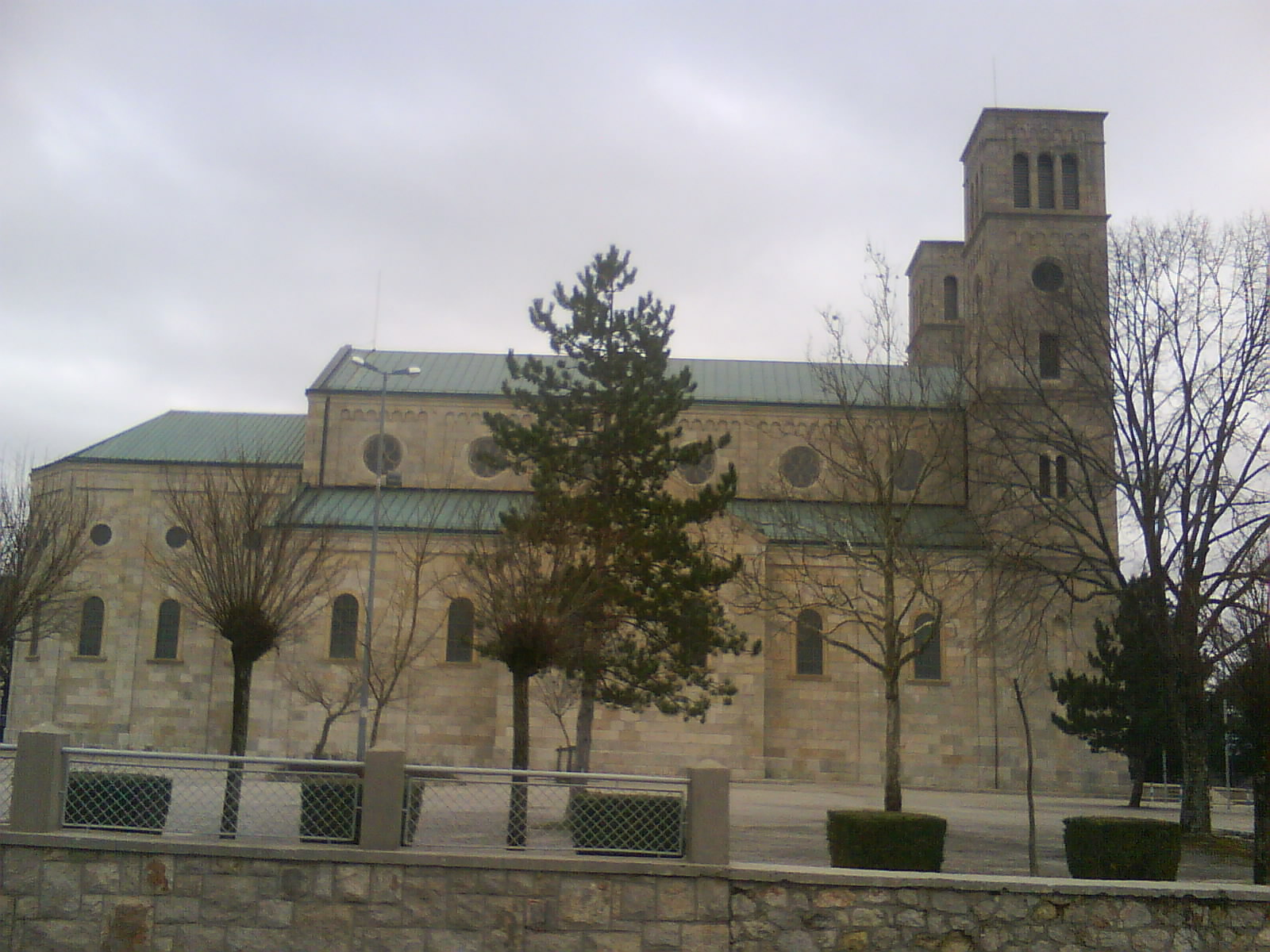 Franciscan Roman catholic church in Široki Brijeg, view from the north